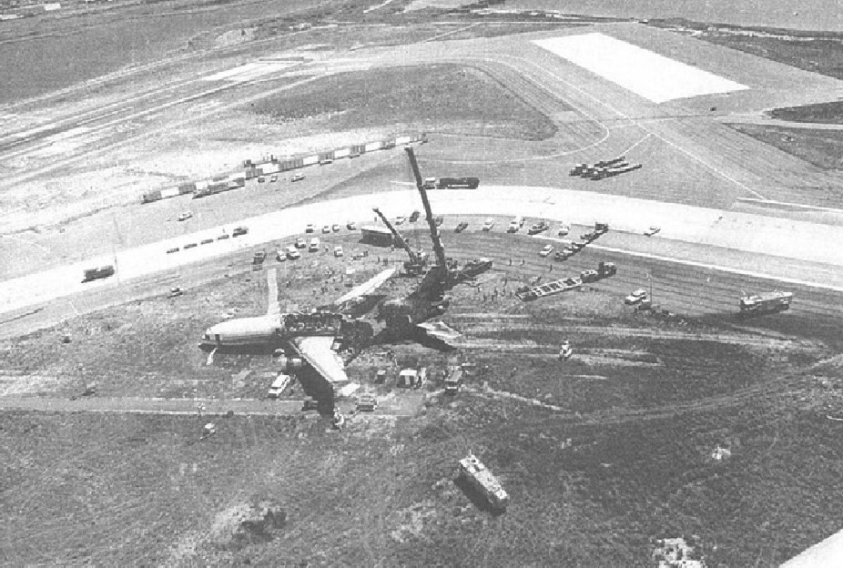 Trans World Airlines Flight 843（N11002）wreckage3